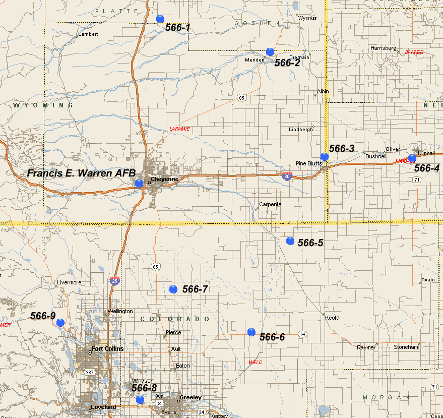 566th Strategic Missile Squadron - SM-65E Atlas Missile Silos